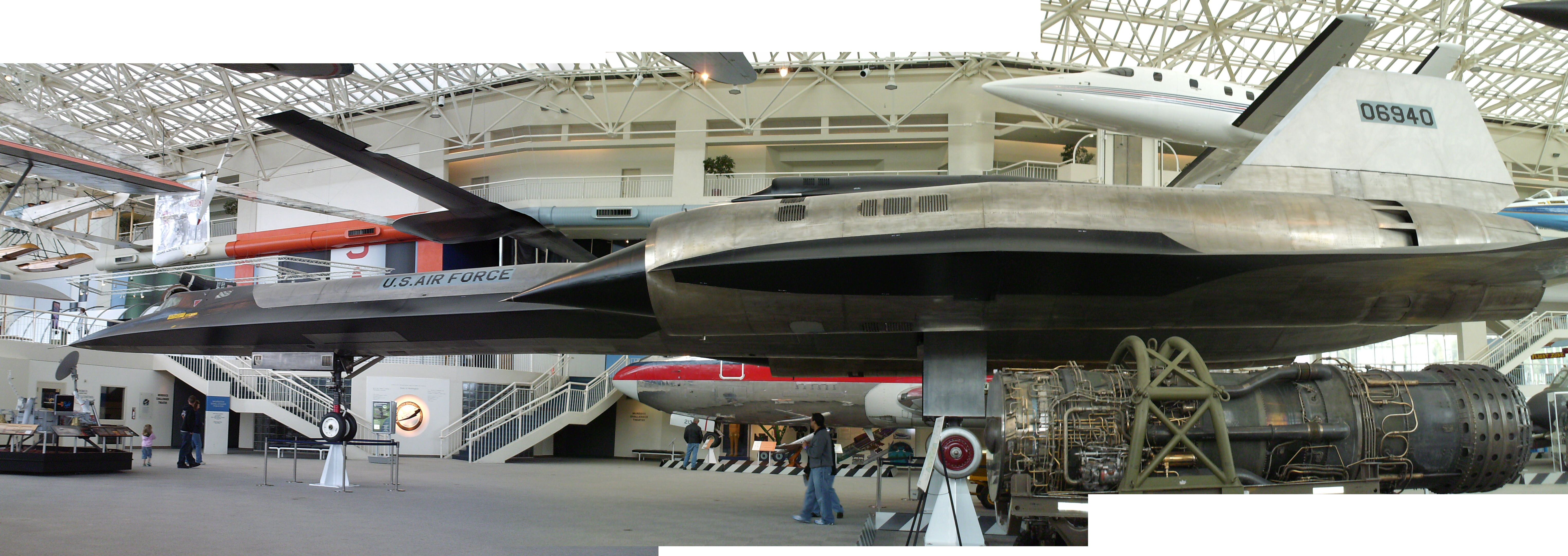 Picture of an Lockheed M-21 with D-21 drone on top, as shown in the "Museum of Flight" near Boeing field, Seattle. This picture was done by taking multiple pictures and lining them up in a panoramic style.